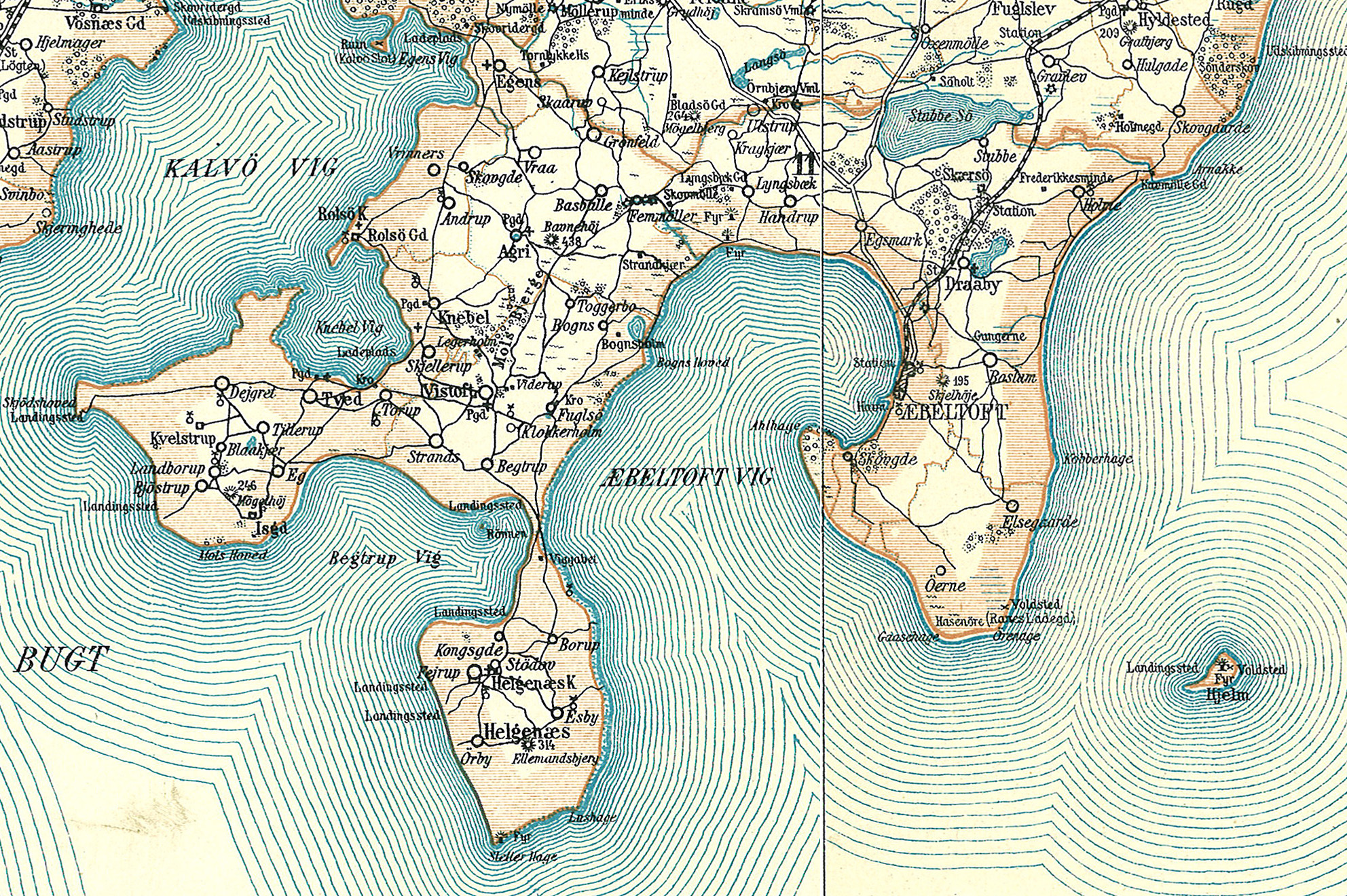 Map of Mols Herred in the south-eastern part of Randers County in Denmark